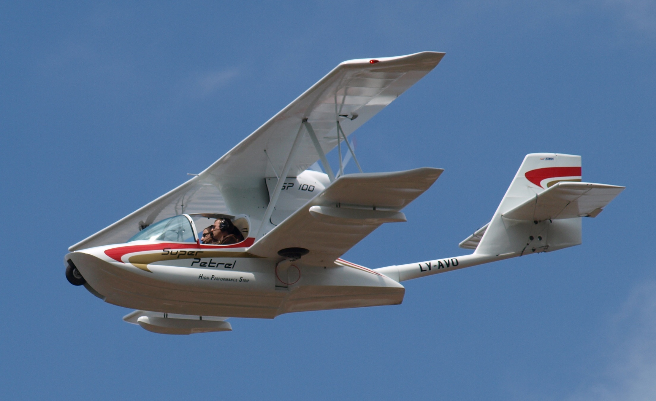 Super Petrel amphibious ultralight aircraft